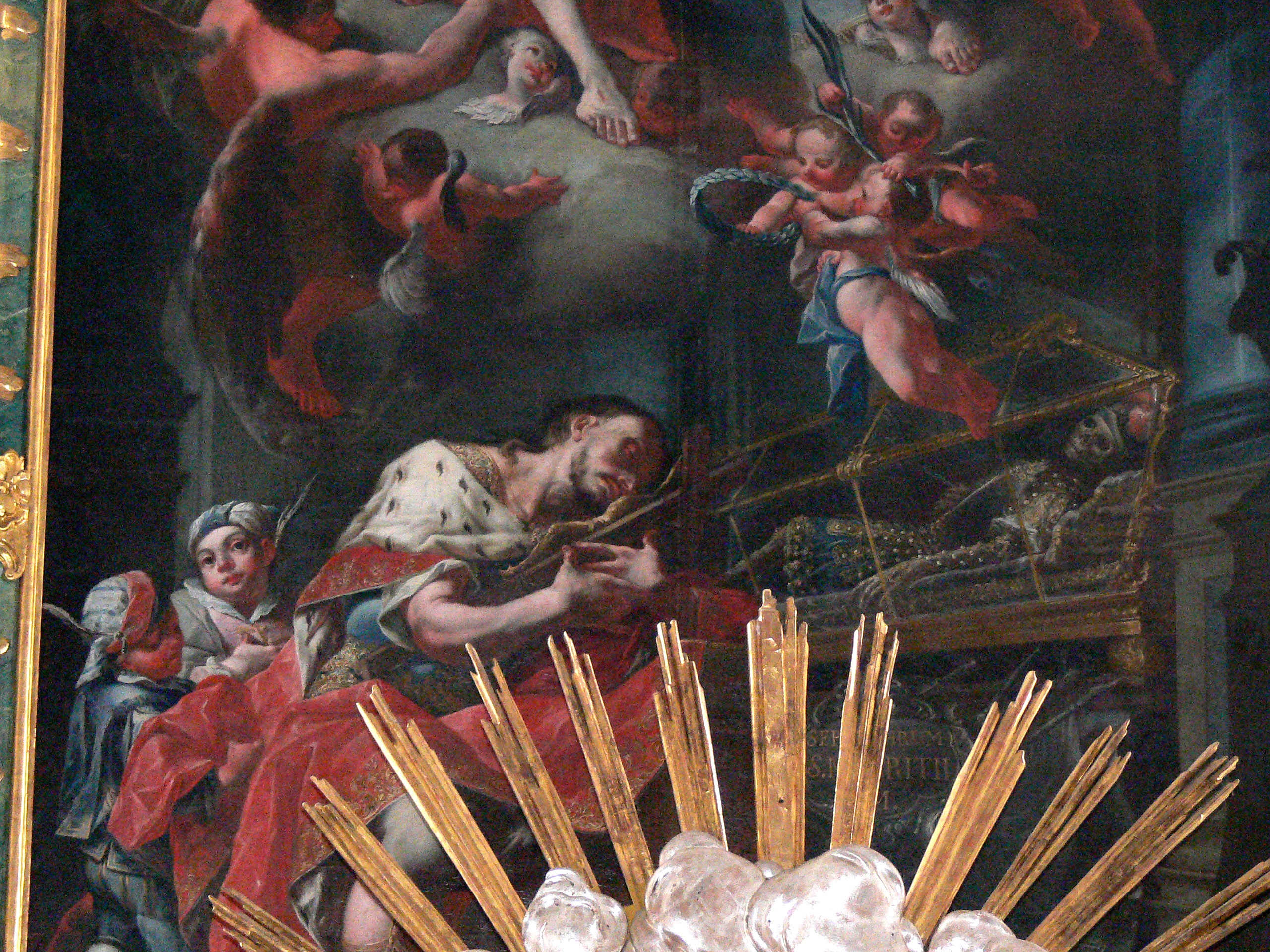 Saint Sigismund parish church in Strobl, Salzburg ( Austria ). High altar ( 1760 ): Saint Sigismund praying in front of the relics of Saint Maurice in the abbey of Saint Maurice d´Agaune seeking absolution for murdering his son Sigerich in 523.